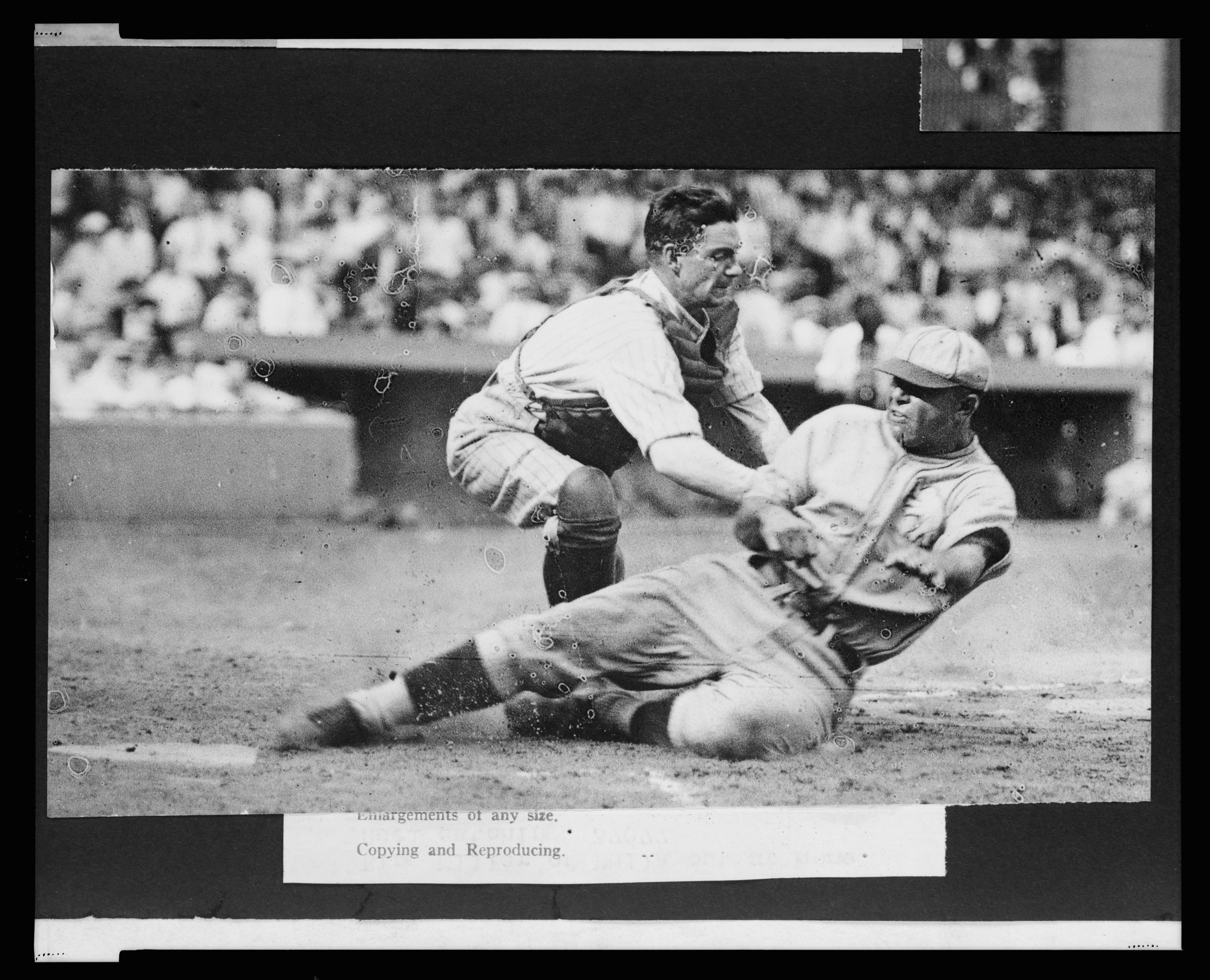 TITLE: [Bing Miller, of the Philadelphia Athletics, tagged out at home plate by Washington Nationals catcher "Muddy" Ruel during baseball game] CALL NUMBER: LOT 12287, v. 2, no. 35 [P&P] REPRODUCTION NUMBER: LC-USZ62-135437 (b&w film copy neg.) No known restrictions on publication. MEDIUM: 1 photographic print. CREATED/PUBLISHED: [1925] NOTES: Title devised by Library staff. No. 37077. Forms part of: Washington Nationals baseball club from the National Photo Company Collection (Library of Congress). SUBJECTS: Ruel, Muddy, 1896-1963. Miller, Bing, 1894-1966. Washington Senators (Baseball team : 1886-1960) Philadelphia Athletics (Baseball team) Sliding--1920-1930. Baseball--Washington (D.C.)--1920-1930. Baseball players--Washington (D.C.)--1920-1930. Baseball players--Pennsylvania--Philadelphia--1920-1930. FORMAT: Photographic prints 1920-1930. PART OF: Washington Nationals baseball club REPOSITORY: Library of Congress Prints and Photographs Division Washington, D.C. 20540 USA DIGITAL ID: (digital file from b&w film copy neg.) cph 3c35437 CARD #: 2005685880